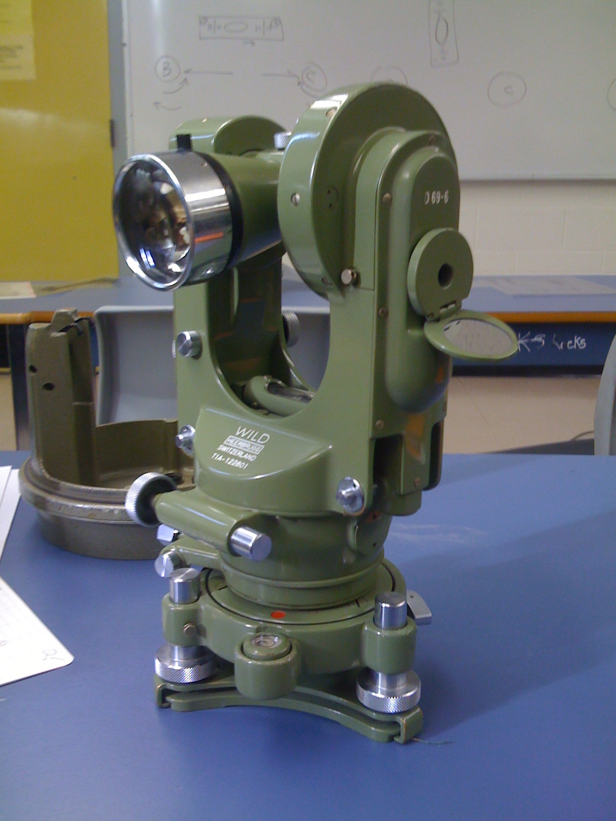 And old surveying theodolite Wild T1